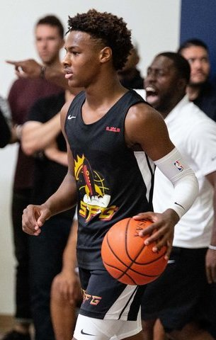 Bronny James playing with his father (LeBron James) AAU team Strive For Greatness